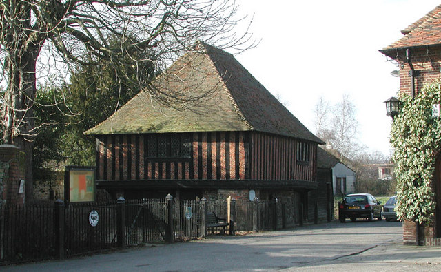 Town Hall, Fordwich, Kent